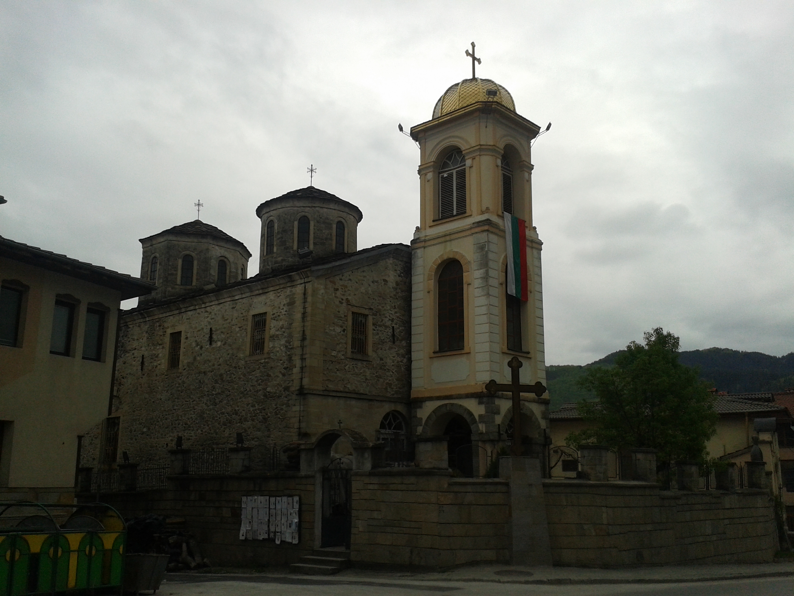 The church "St. Nicolas" in Ustovo, Smolyan.